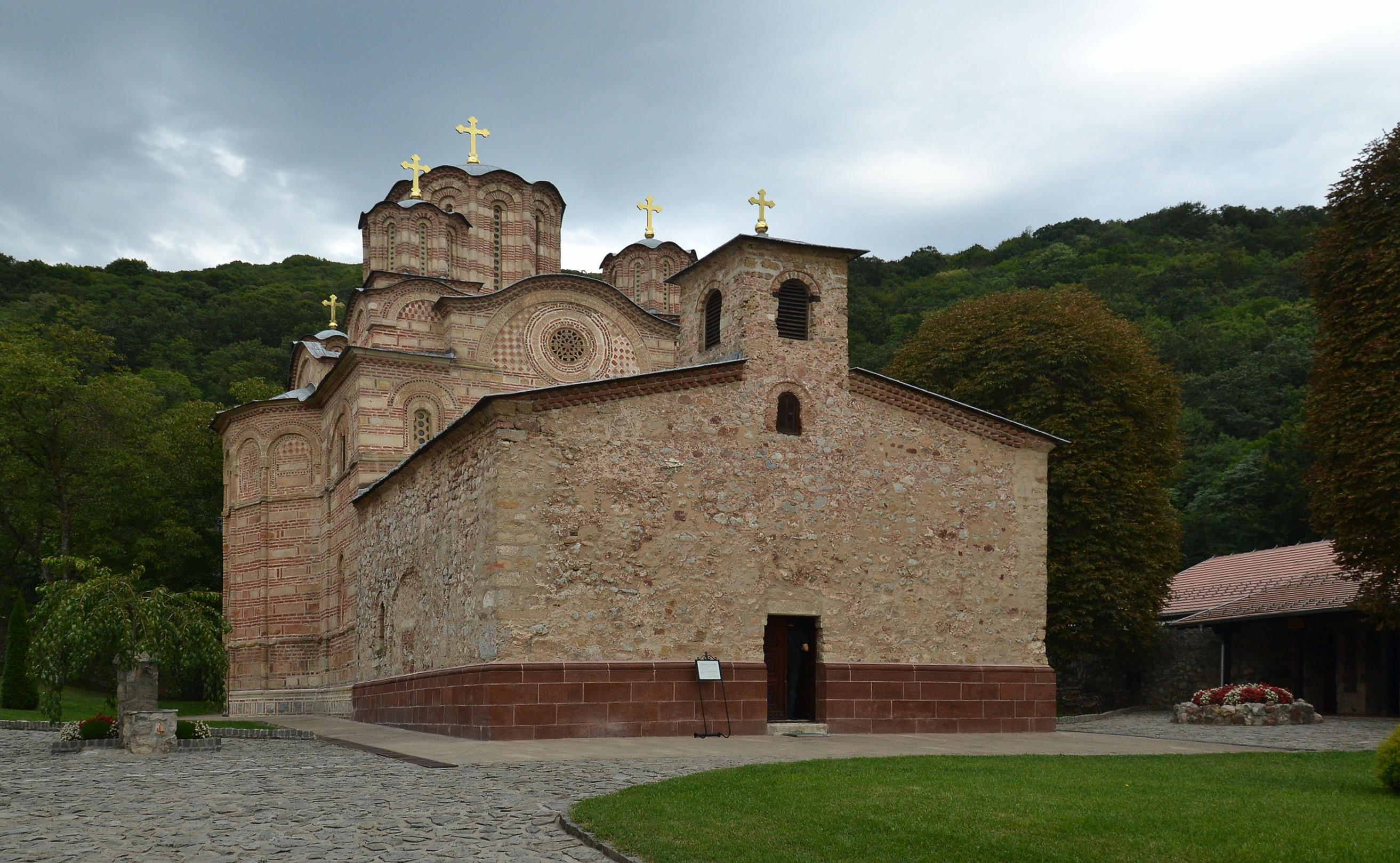 Ravanica monastery, Serbia